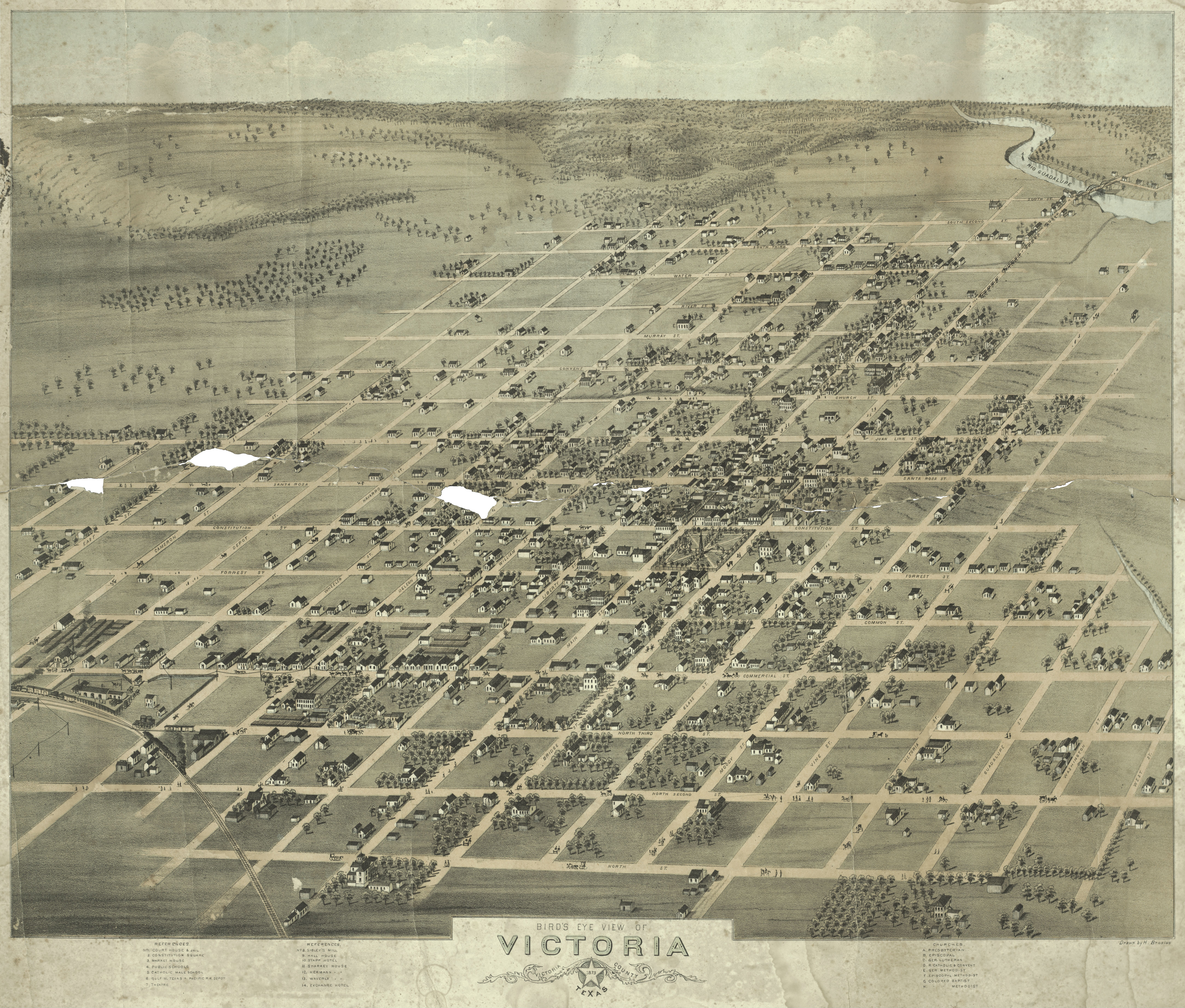 Victoria, Texas in 1873. Bird's Eye View of Victoria, Victoria County, 1873, 1873. Toned lithograph, 19.3 x 24 in. Lithographer unknown. Private collection.